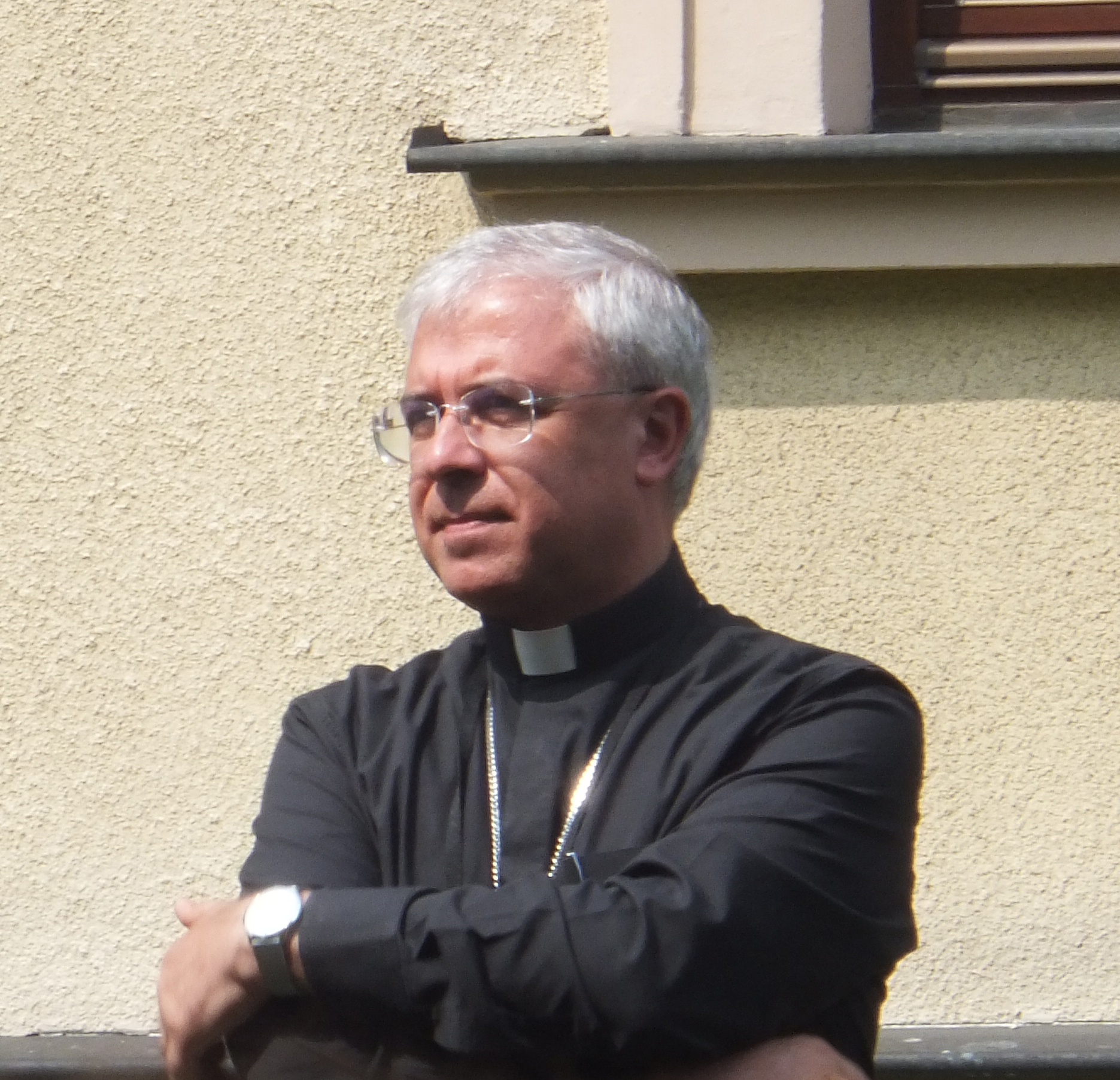 Luigi Renna, bishop of Cerignola-Ascoli Satriano, at the World Youth Day 2016 in Cracow